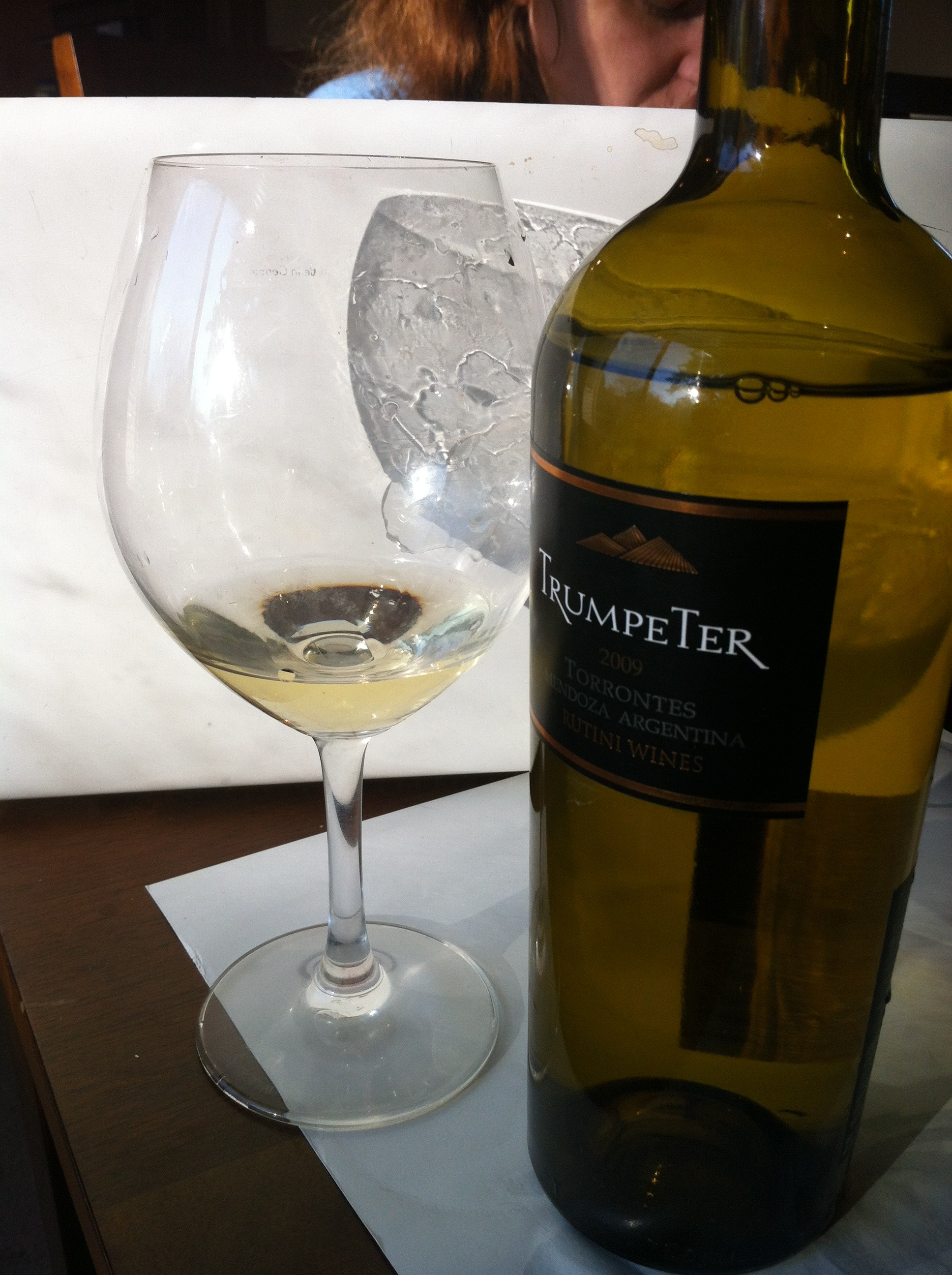 Argentinian white wine from the Mendoza region made from Torrontes